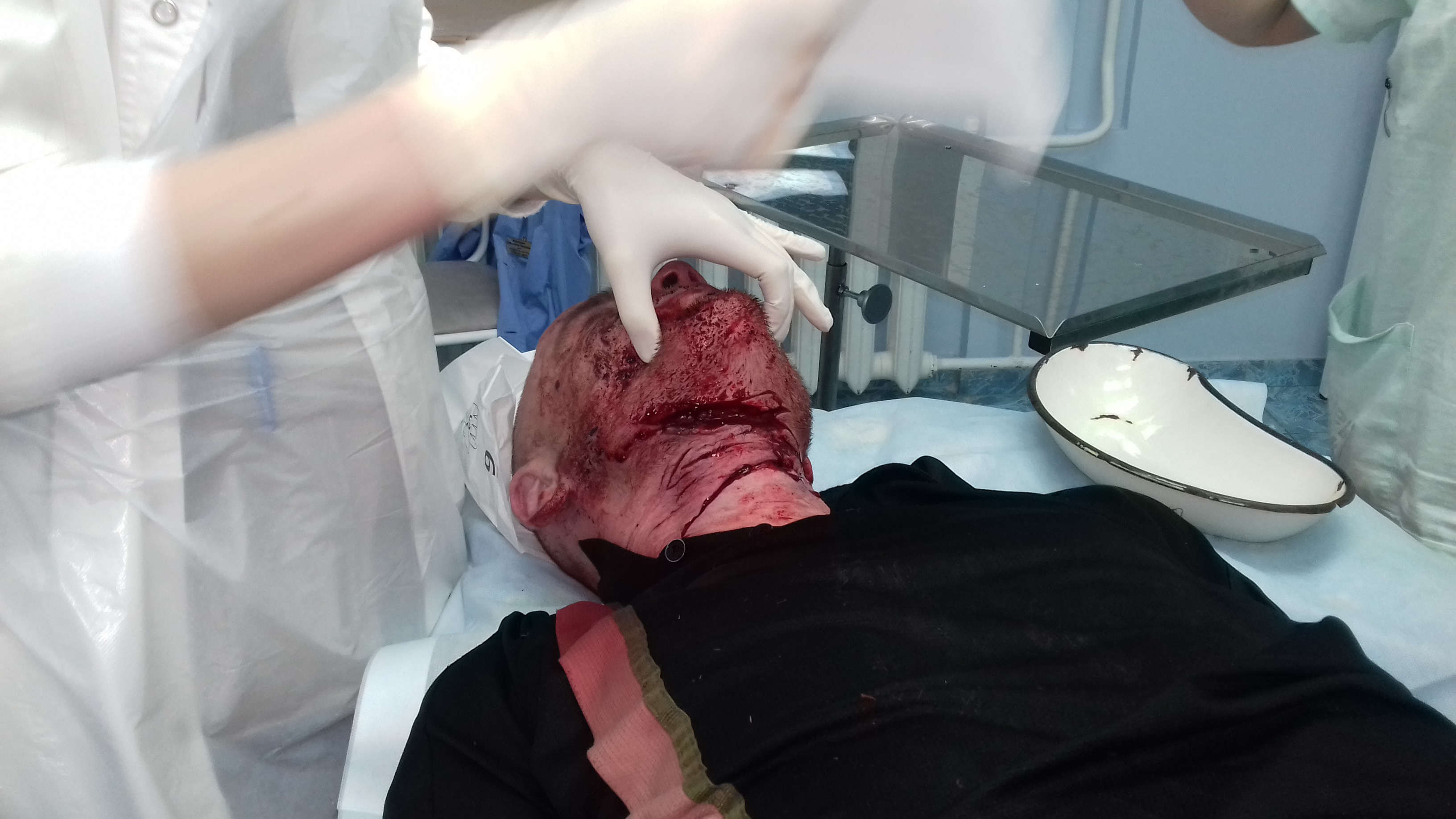 X78 Intentional self-harm by sharp object